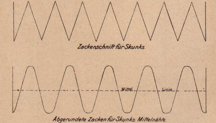 Graphics for Furriers